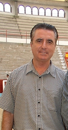 El torero español José Ortega Cano en Pontevedra.